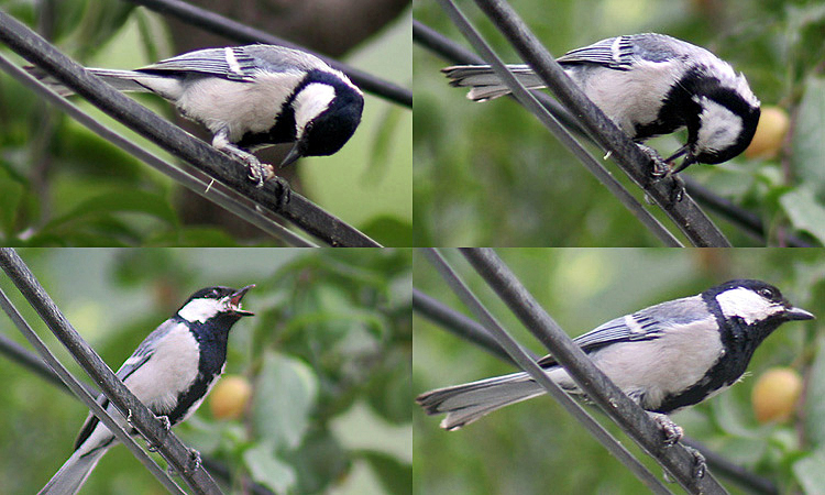 Cinereous Tit Parus cinereus in Kullu District of Himachal Pradesh, India.